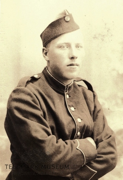 Halvor Orebakken (later Myrvoll) as a soldier in the Norwegian Army, 1920